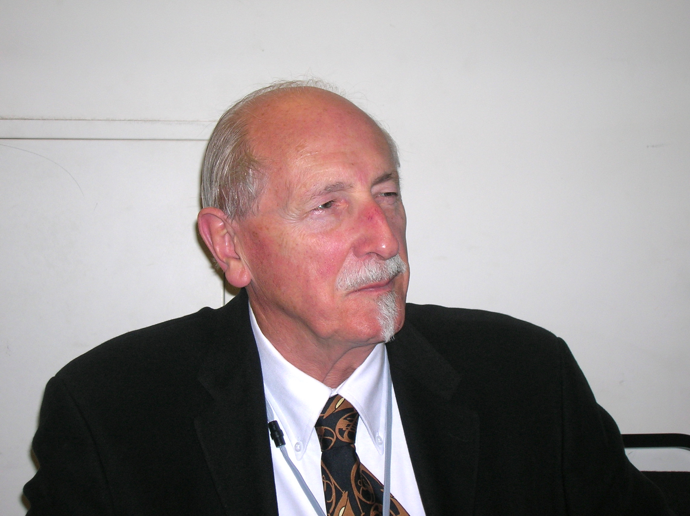 Barry Tuckwell, horn player, at the British Horn Society, October 2007